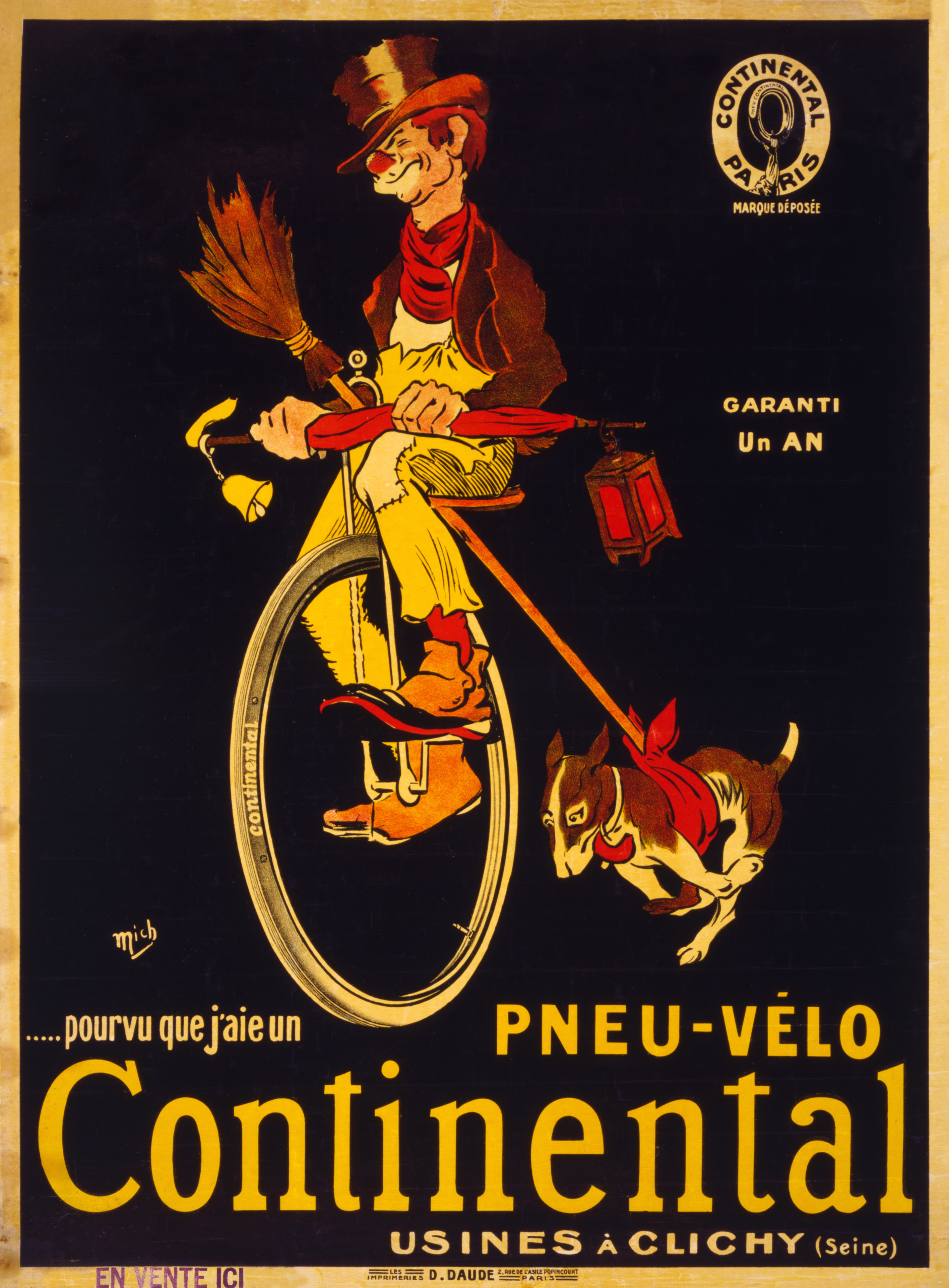 ...Pourvu que j'aie un pneu-vélo Continental. Garanti un an. Usines à Clichy (Seine). "If I only had a Continental bicycle tire." Advertising poster for Continental tires showing a hobo on a unicycle with his dog running beside. , ca. 1900.